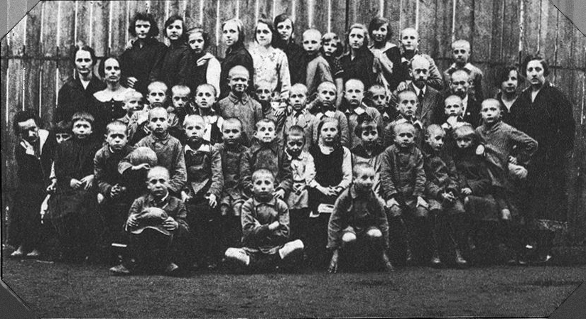 Staff and children of Nasz Dom (Our Home) Orphanage, run by Maryna Falska and Janusz Korczak in Pruszkow at Cedrowa Street. First at left sits Maryna Falska. Behind her stand Maria Kosińska and Podwysocka. From the right, second row from the top stands: side of stands: Stefa Wilczyńska, Jozinka Dzięcioł, Stanisław Zemis and Dr. Korczak.